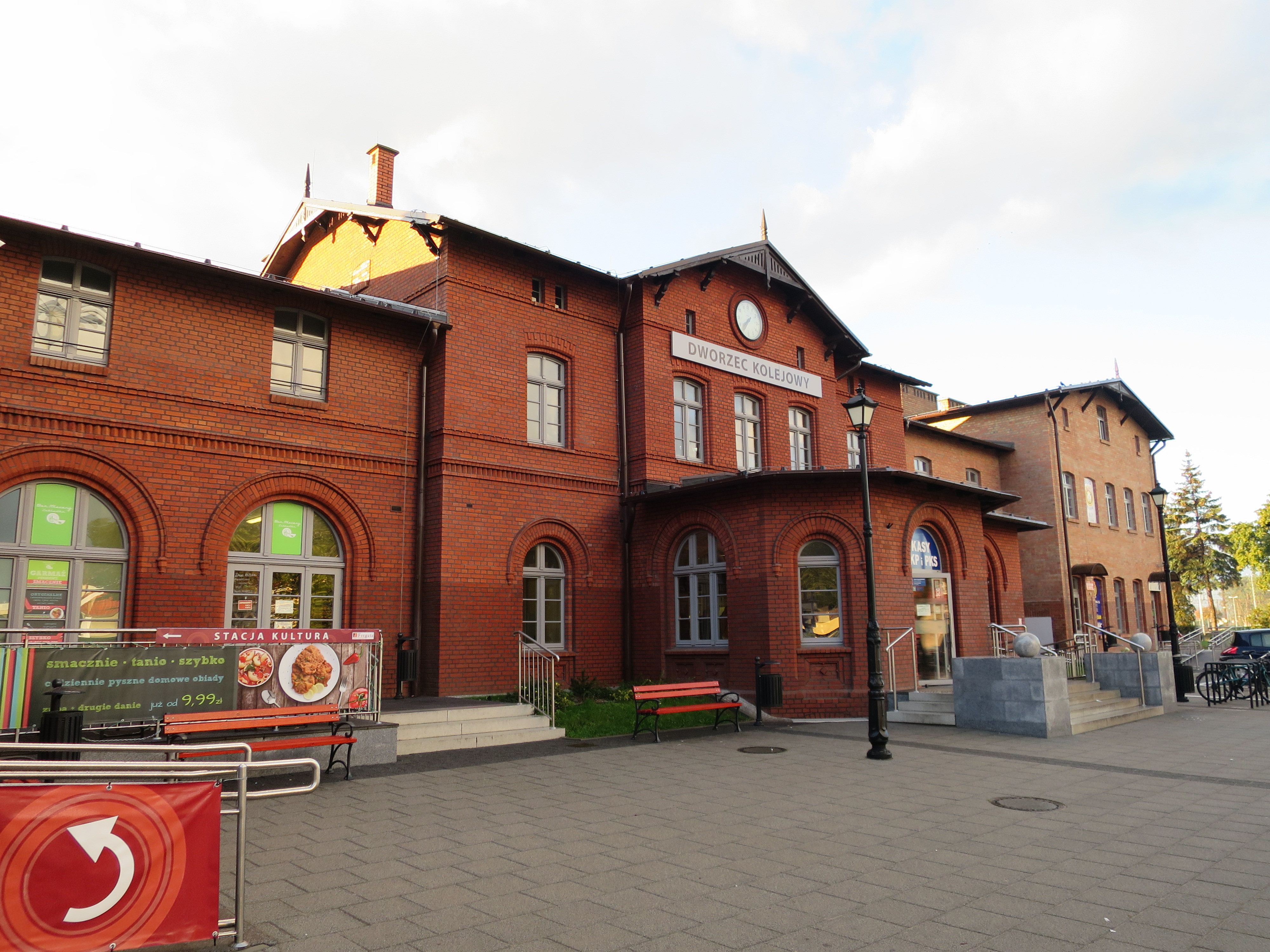 Lębork This photo was taken during Railway Wikiexpedition 2015 set up by Wikimedia Polska Association in cooperation with Fundacja Grupy PKP.You can see all photographs in category Wikiekspedycja kolejowa 2015.